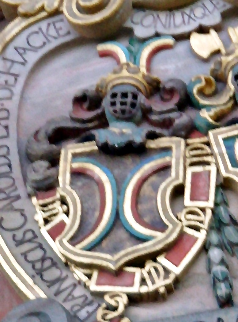 Wappen der kurpfälzischen Freiherrn von Hacke am Trippstadter Schloss